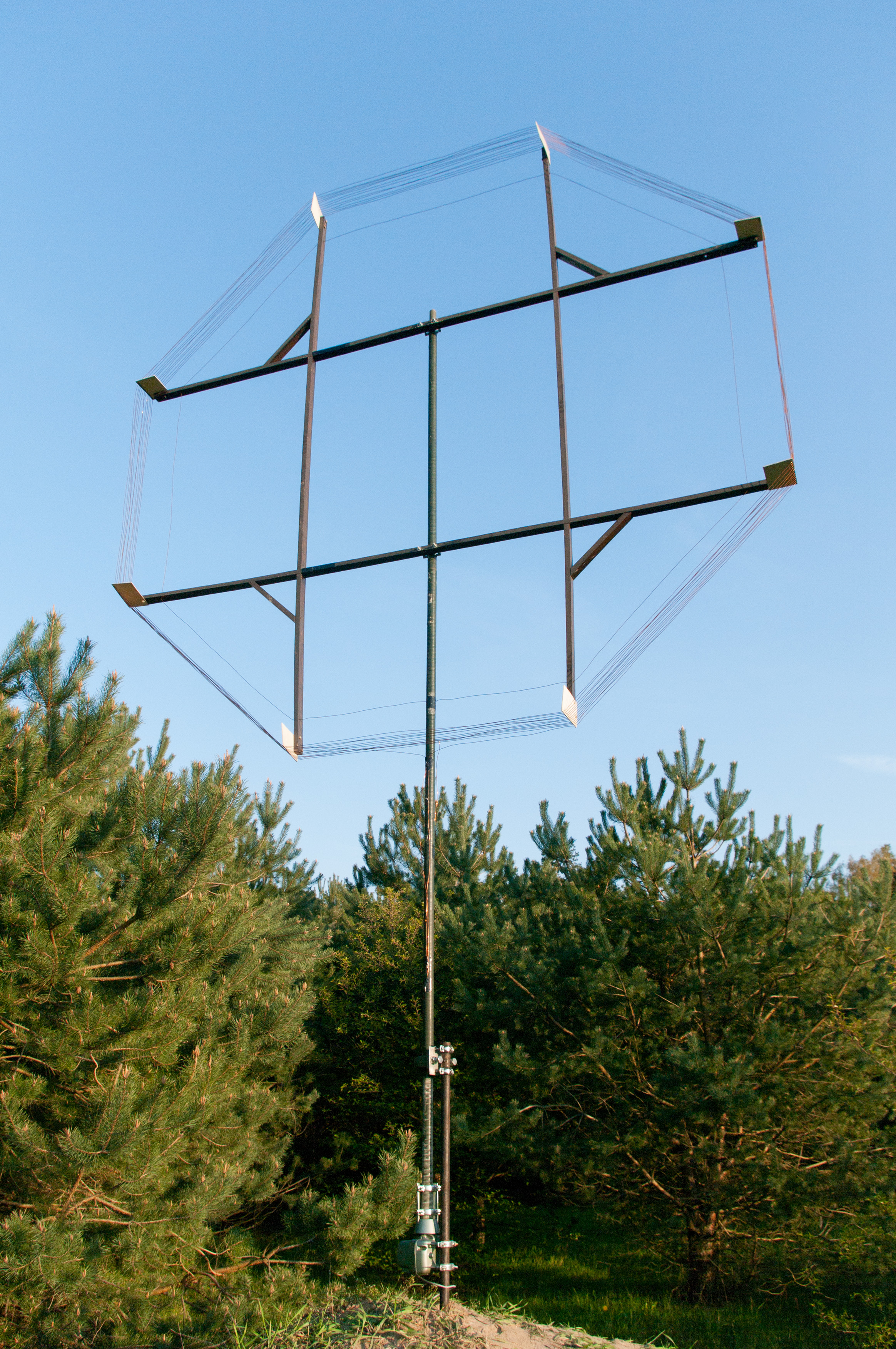 An amateur magnetic loop antenna for reception of LF/MF range. Tunable and rotatable, 2.7 m (9 ft) in diameter.